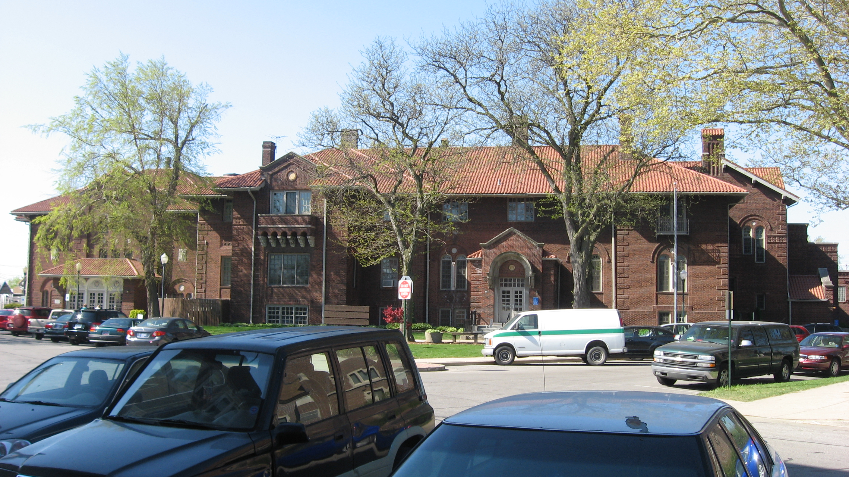 Front of the Whiting Memorial Community House (the Whiting Community Center), located at 1938 Clark Street in Whiting, Indiana, United States. Built in 1923, it is listed on the National Register of Historic Places.